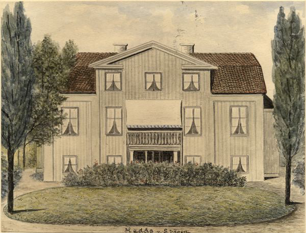 Hedås, a mansion in Gothenburg, Sweden